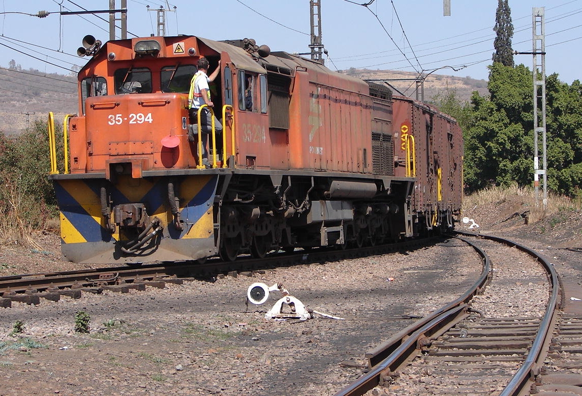 South African Class 35-200 35-294 Builder's Number: EMD 100-69 Type: EMD GT18MC Location: Electro, Pretoria West, Gauteng